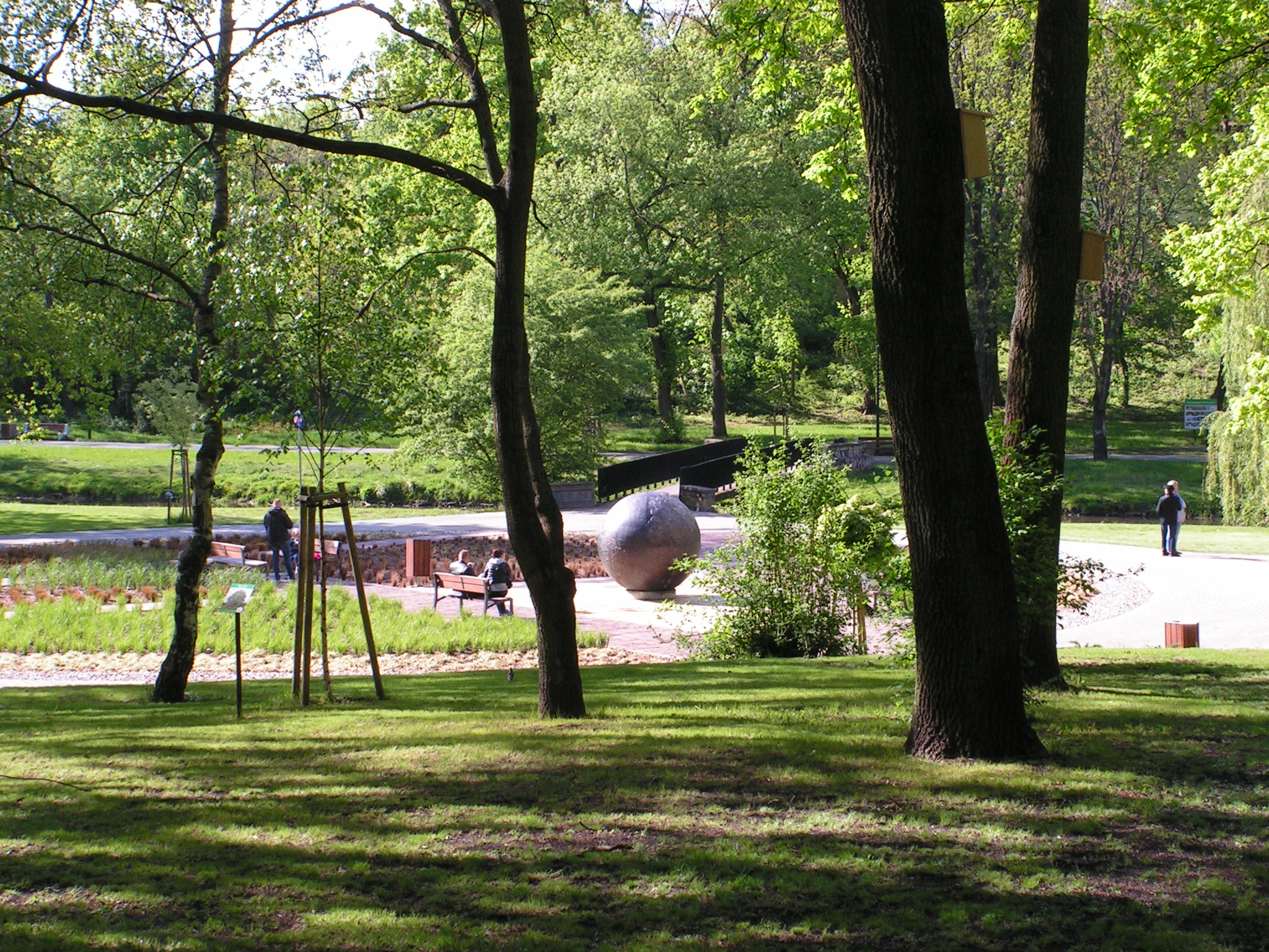 Park on the Pump in Włocławek. In the centre there is a sculpture of globe, which is a central point of park. On the background there is a bridge on the Zgłowiączka river.